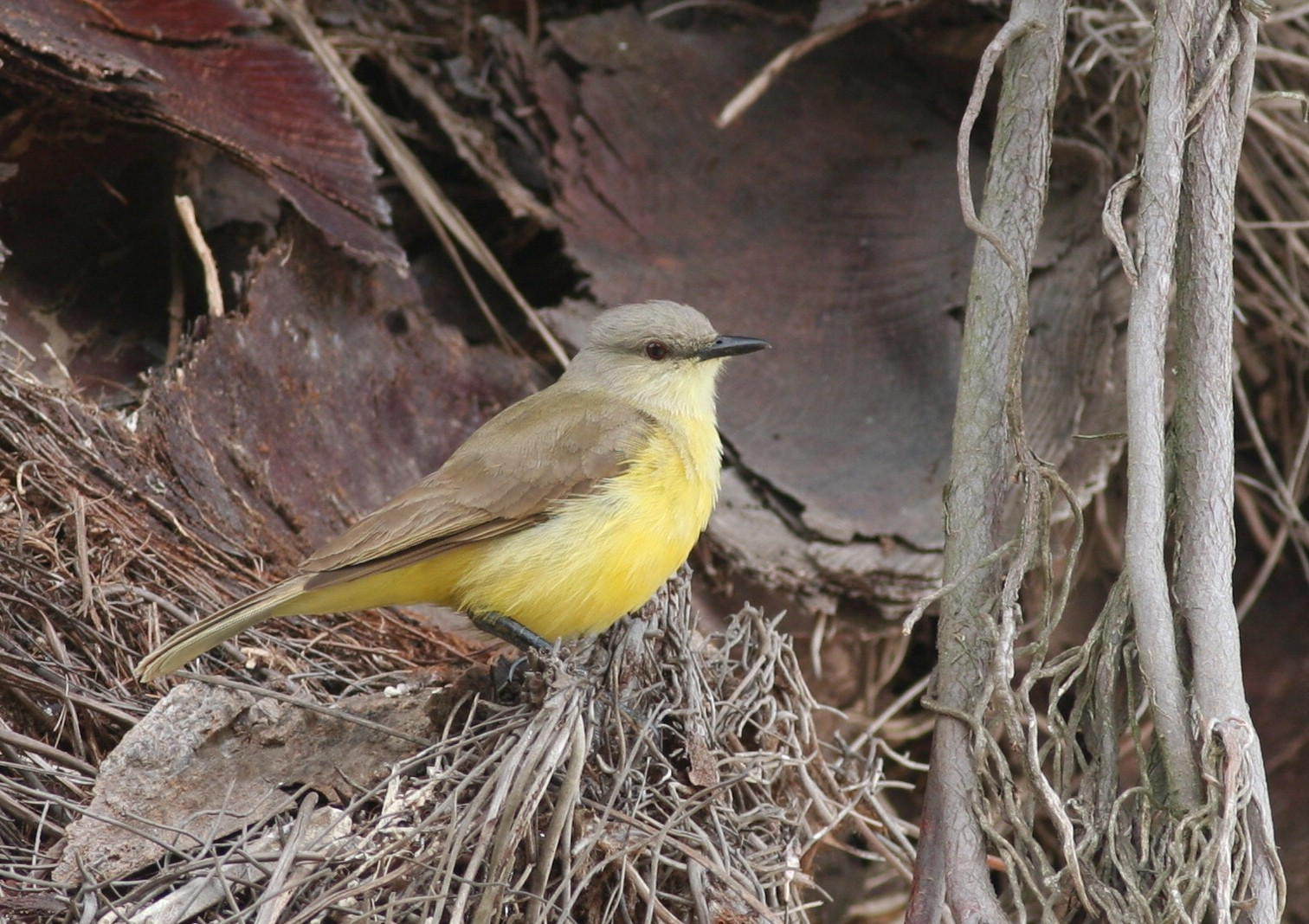 Cattle Tyrant - Picabuey